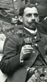 Strashimir Kushev